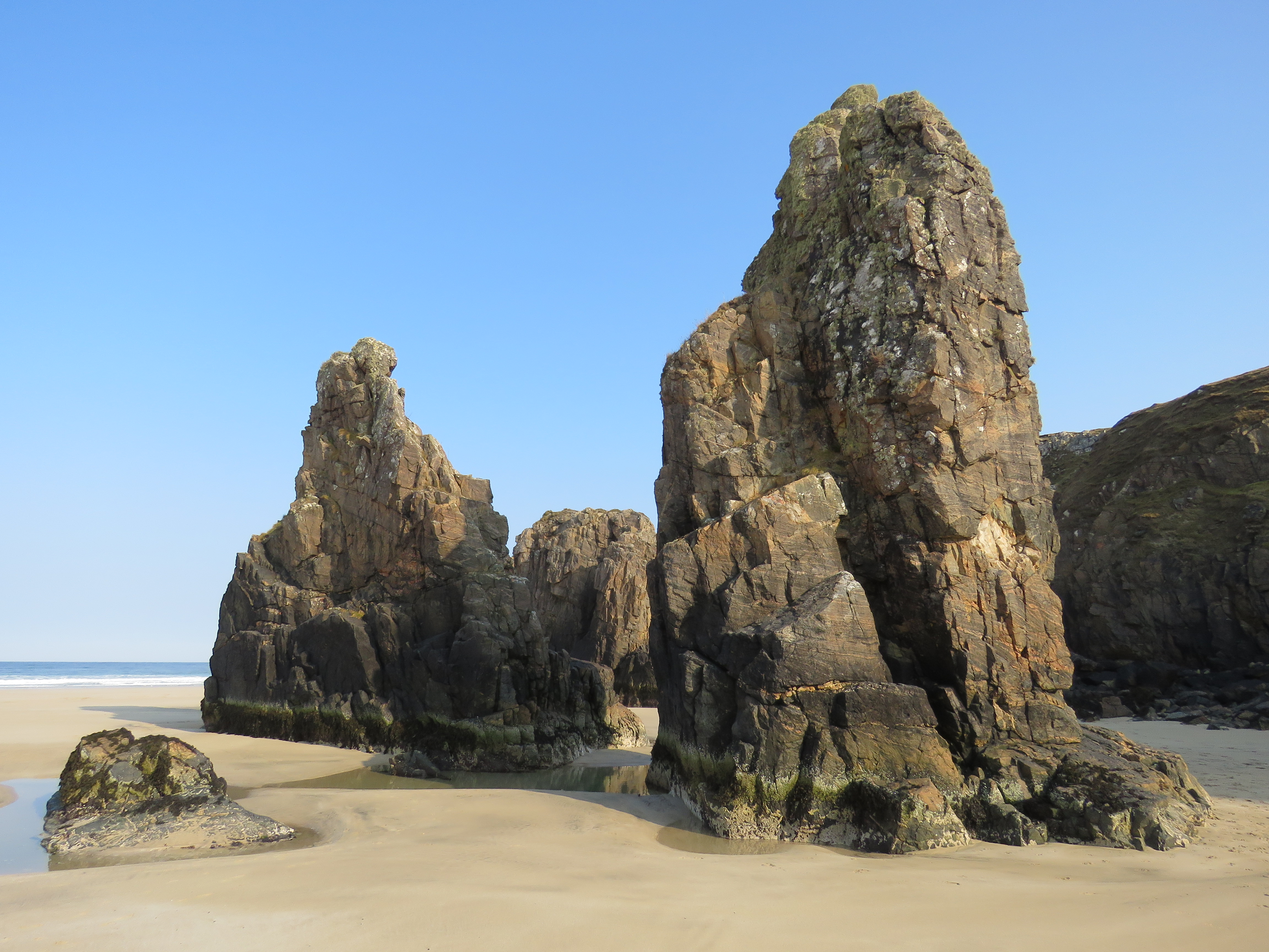 Rock pillars on Tolsta beach, Lewis, Outer Hebrides